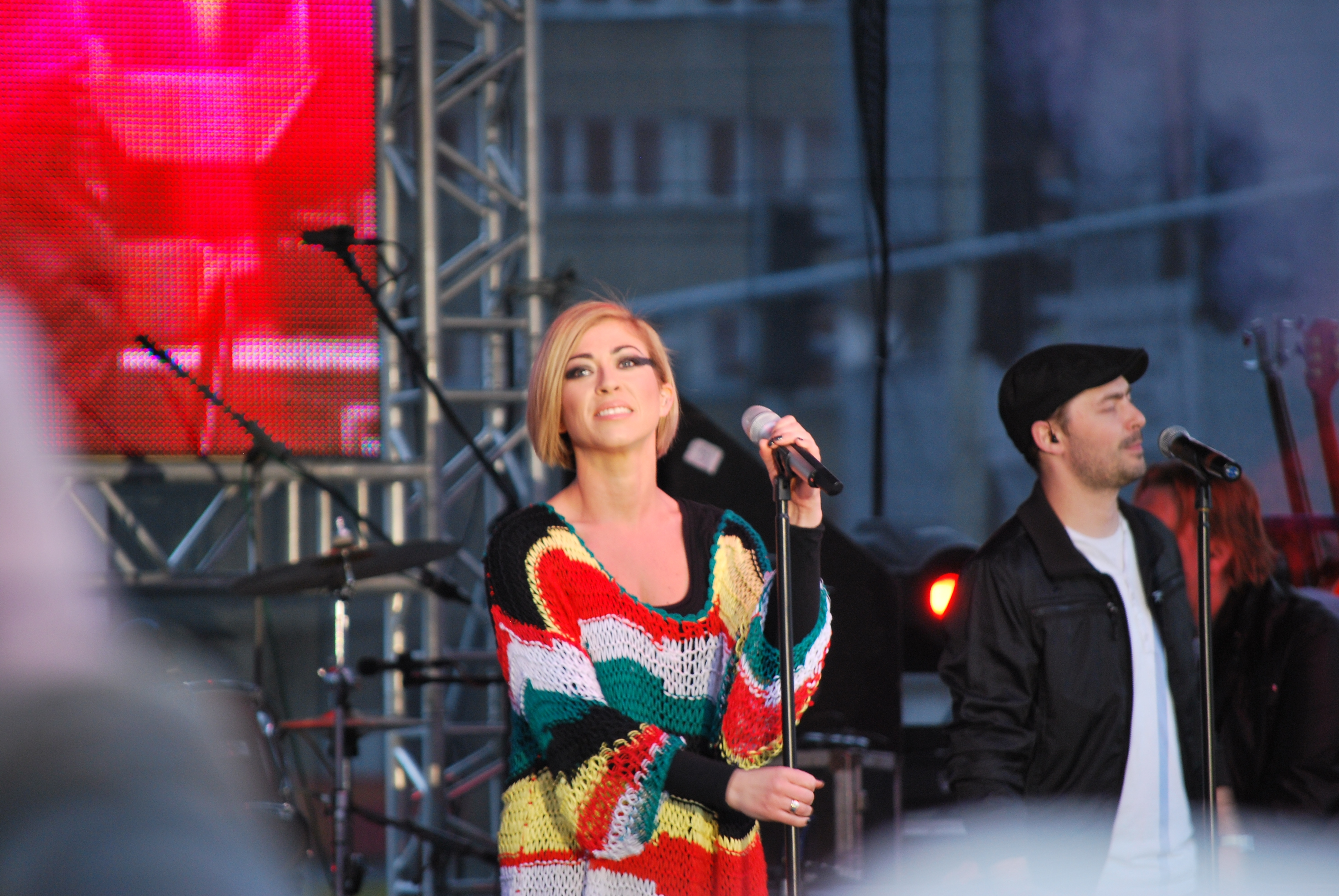 Natalia Kukulska, Festival of Łódź 2011